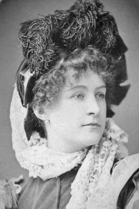 From a photograph taken in 1880